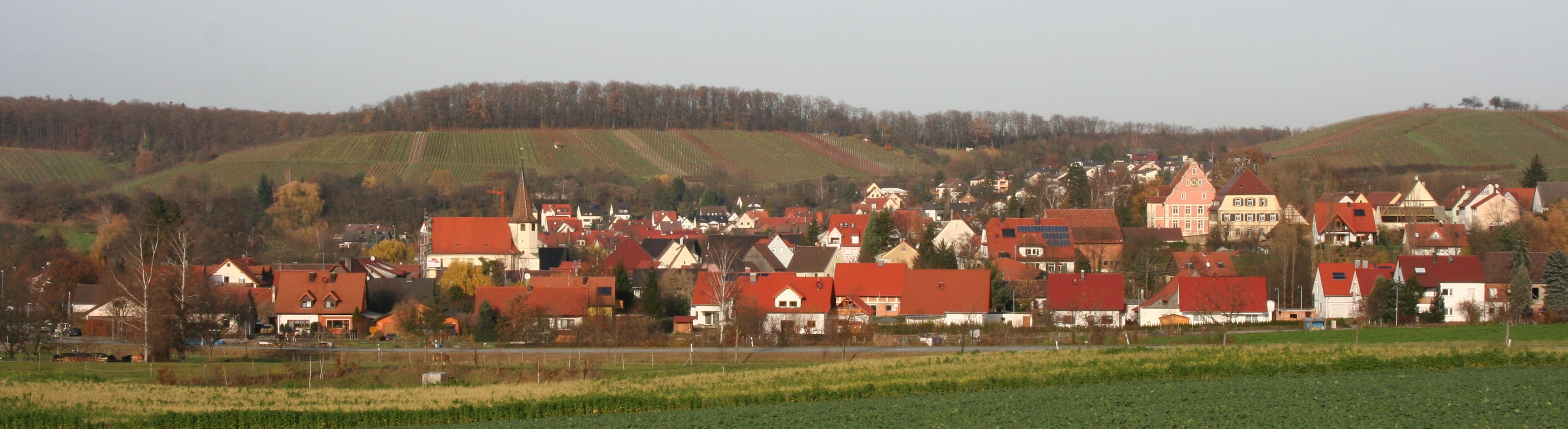 Obersulm-Eschenau